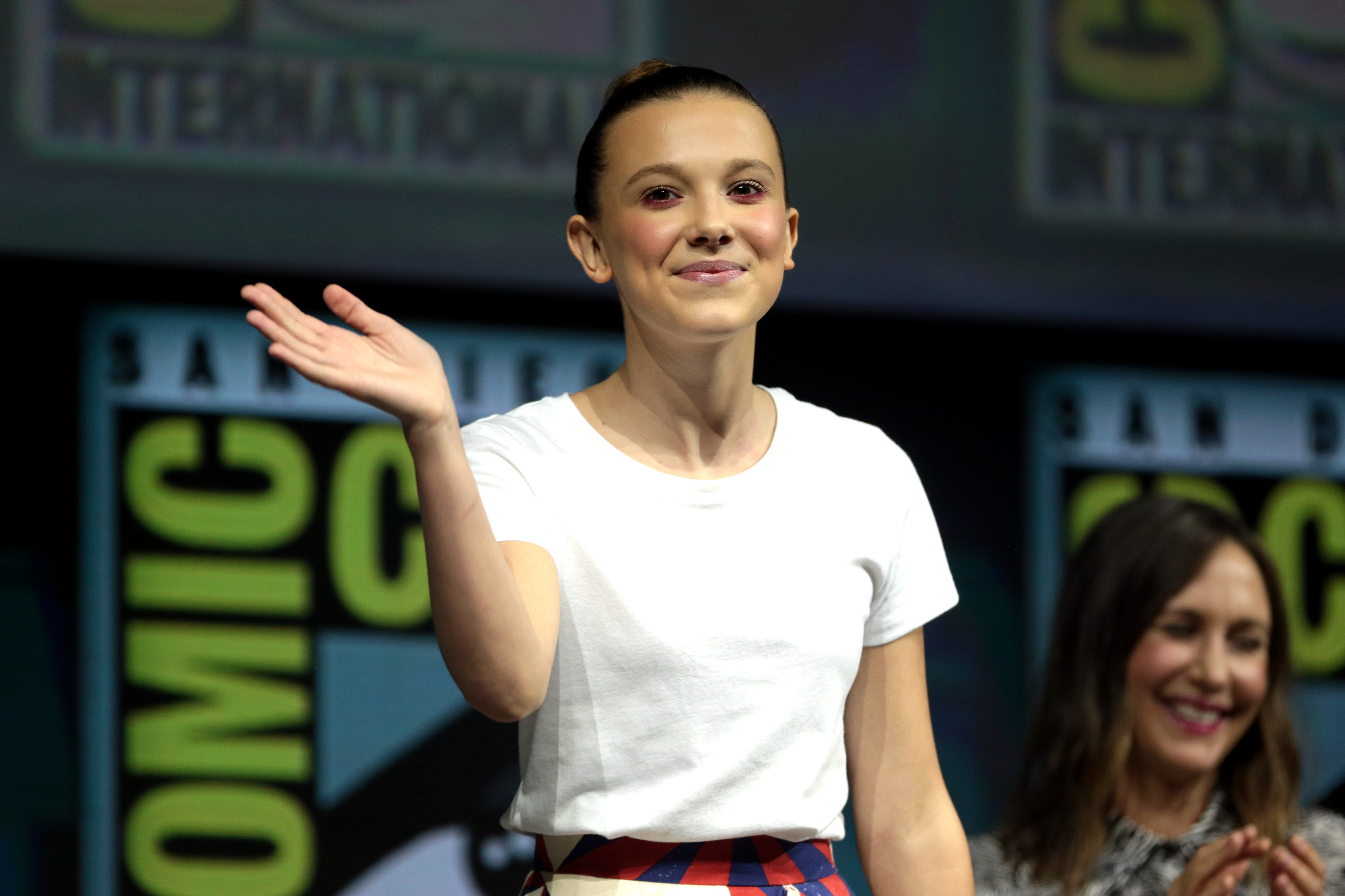 Millie Bobby Brown speaking at the 2018 San Diego Comic Con International, for "Godzilla: King of the Monsters", at the San Diego Convention Center in San Diego, California.